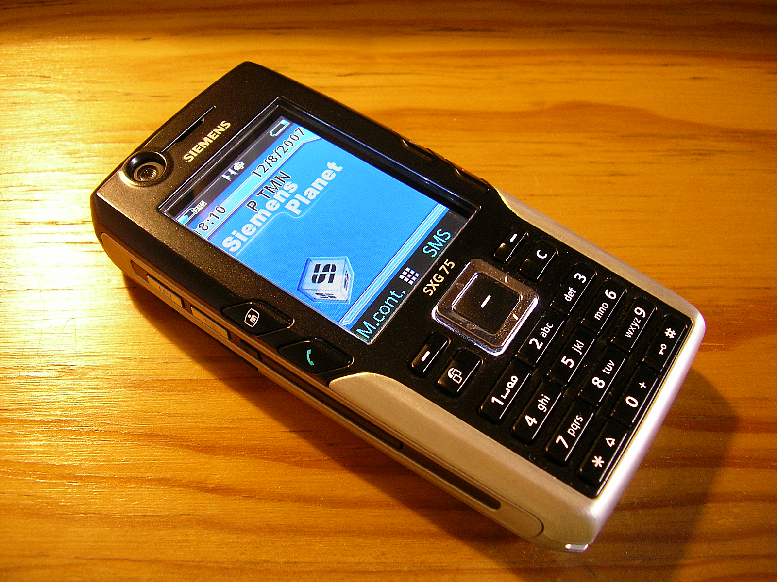 Siemens SXG75 mobile phone, Metallic Black version. The icons on the uppper status bar on the display have been changed from the original orange to blue, via software modding.